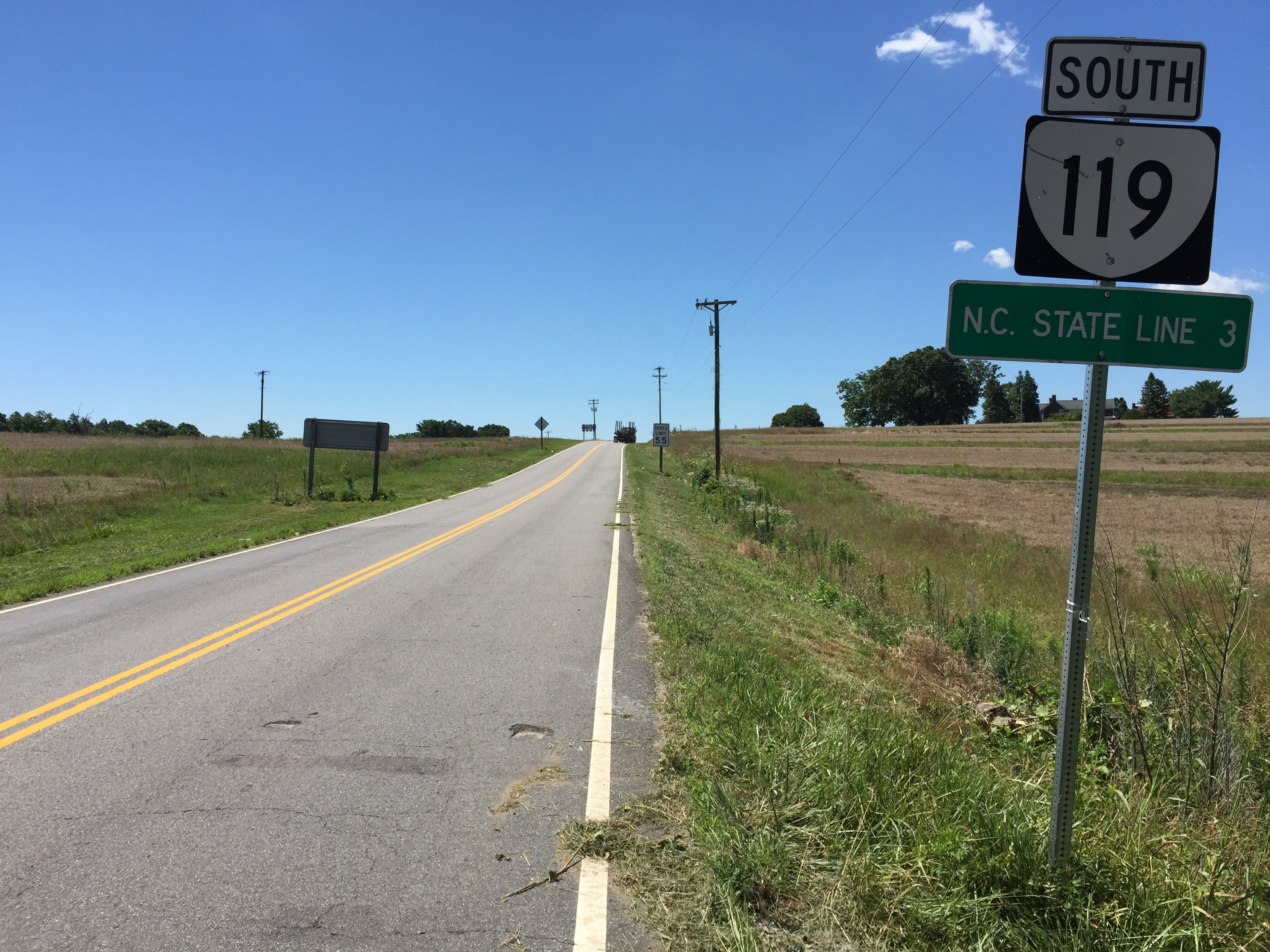 View south along Virginia State Route 119 (Calvary Road) at U.S. Route 58 and U.S. Route 360 (Philpott Road) in Delila, Halifax County, Virginia